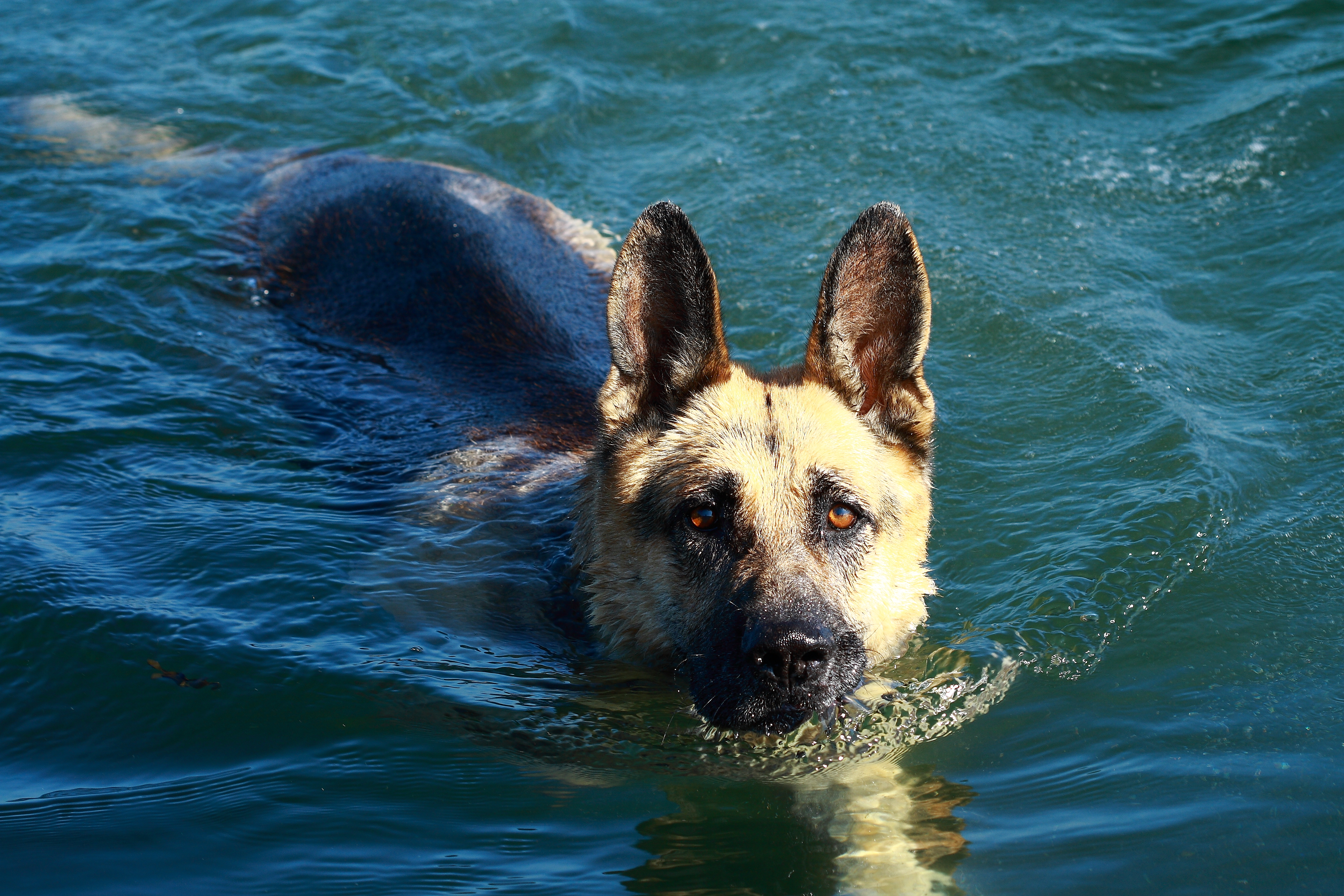 A German Shepherd Dog (Alsatian) swimming.